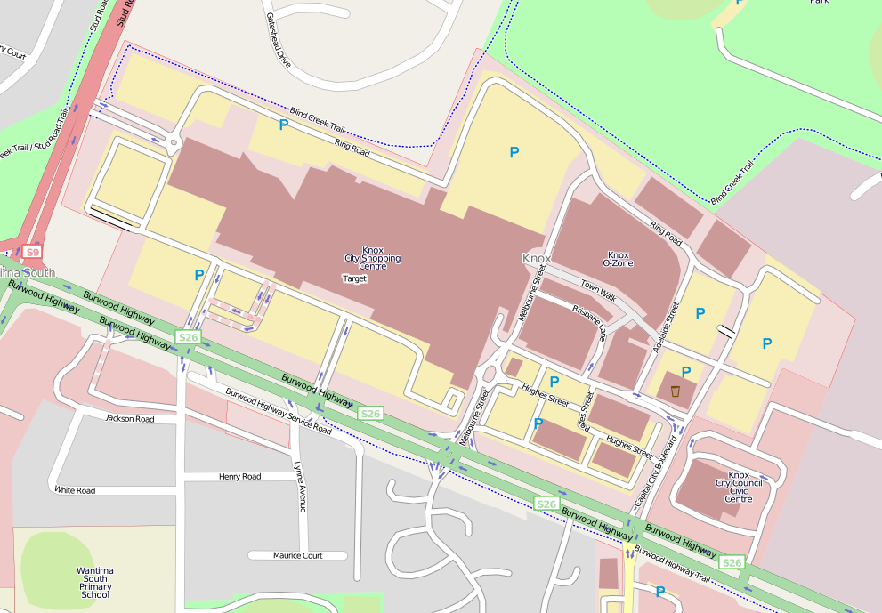 A map of Knox City Shopping Centre taken from OpenStreetMap. This map may be incomplete, and may contain errors. Don't rely solely on it for navigation.